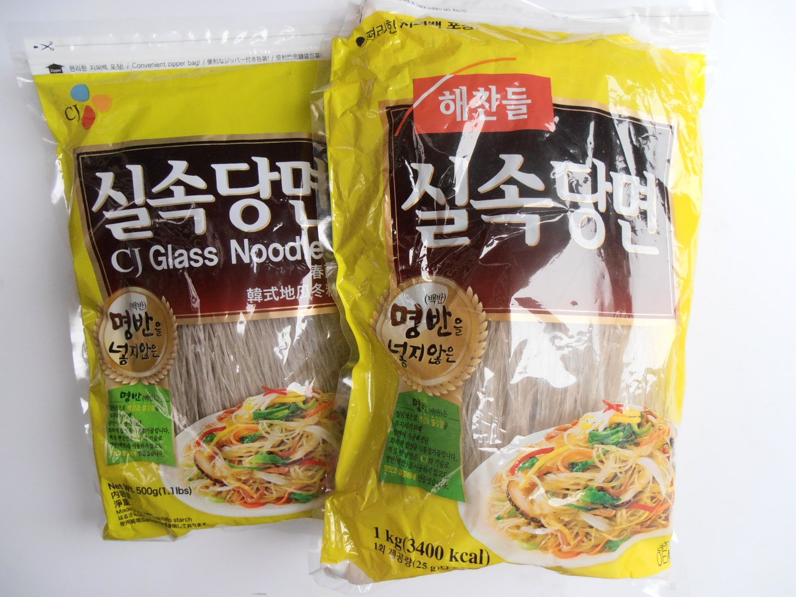 Korean cellophane noodles, of starch (녹말) from sweet potatoes (고구마): ½ kg and 1 kg bag